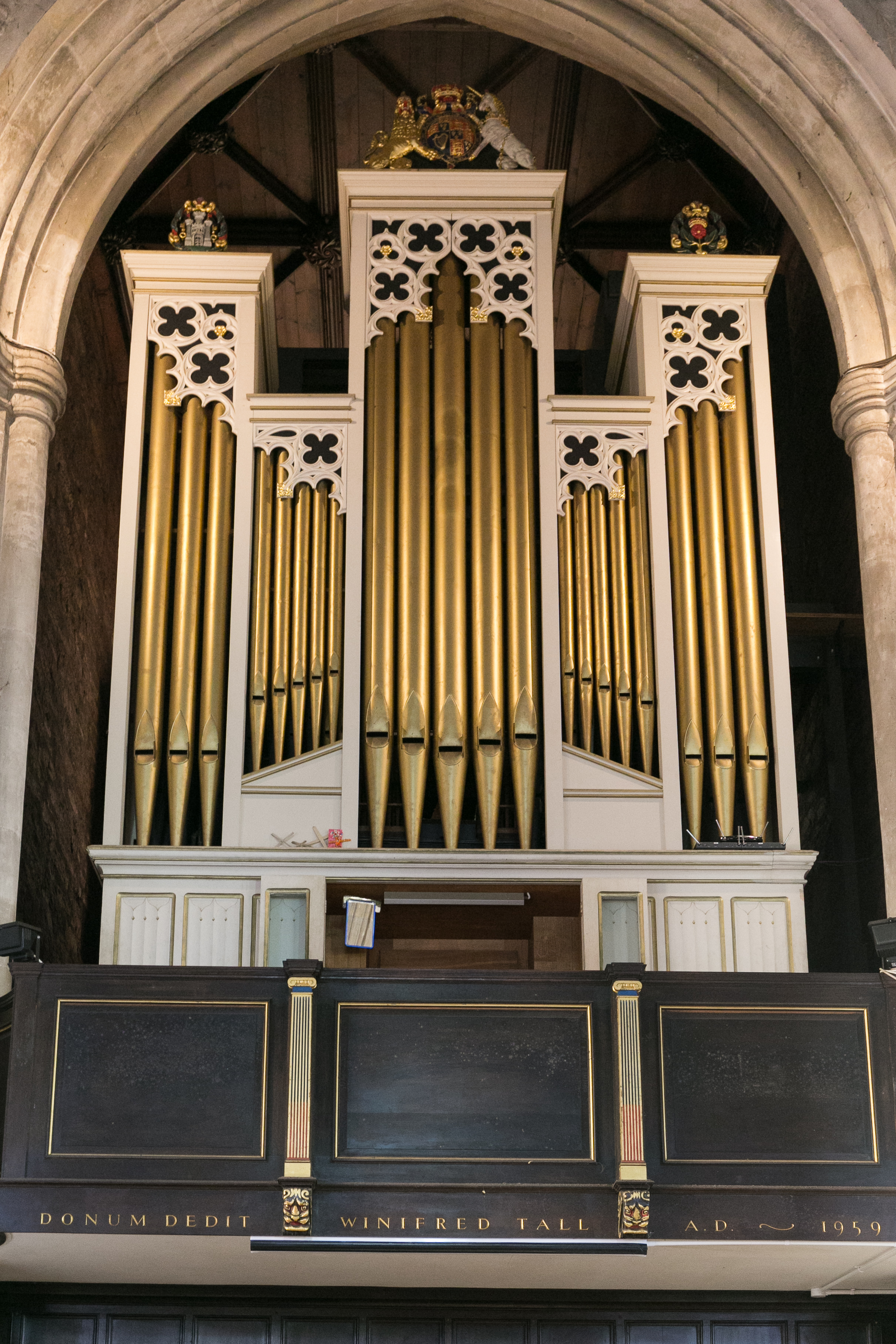 Church of St Mary Wikidata has entry Q17527137 with data related to this item.